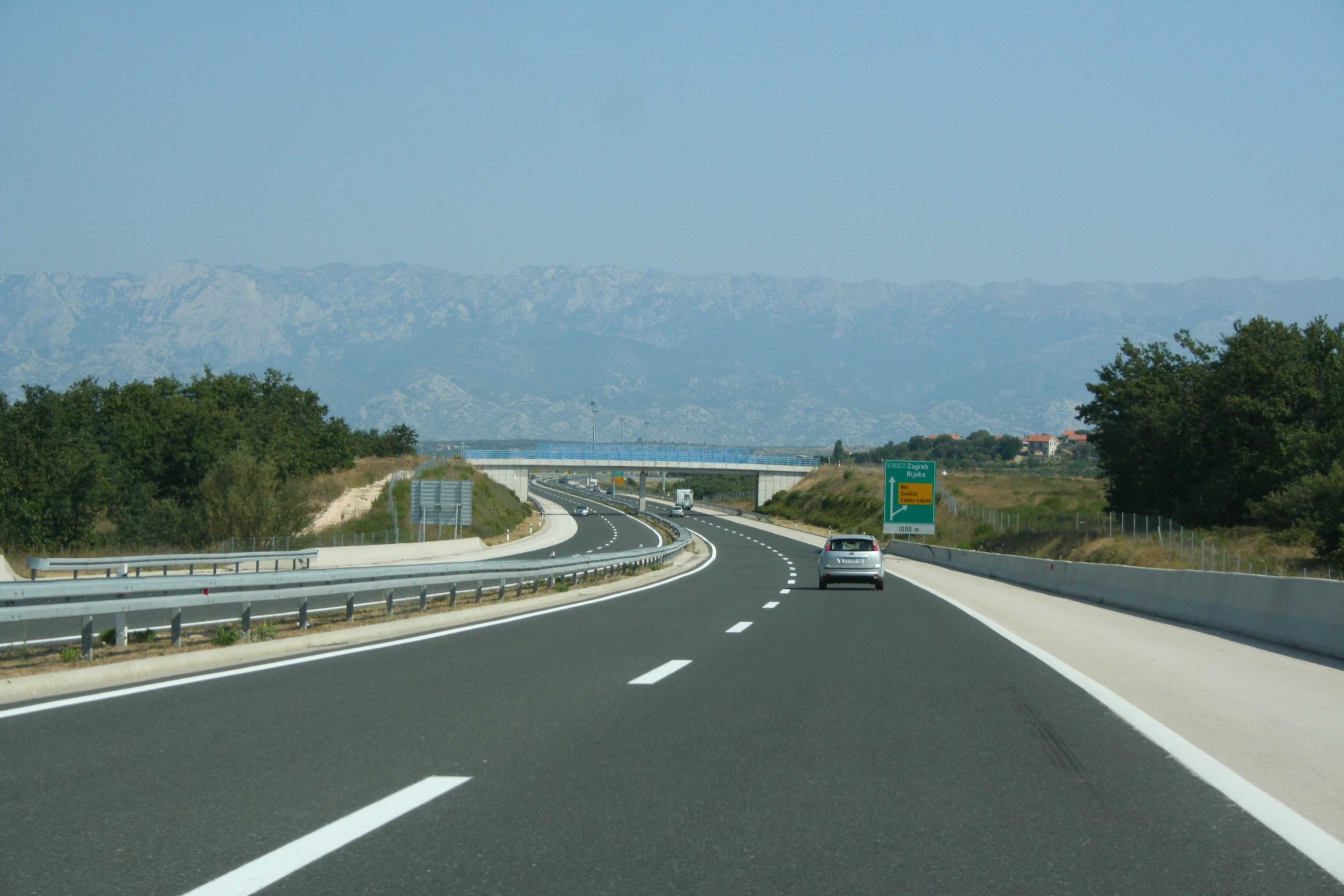 This is a highway in Croatia.